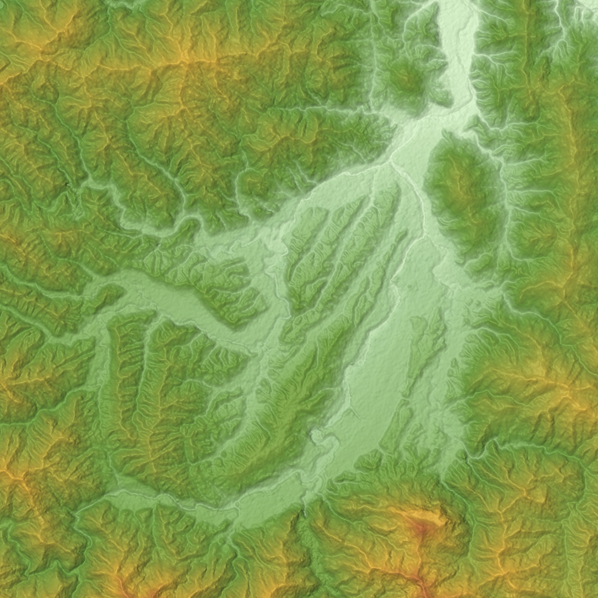 Chichibu Basin in Saitama Prefecture, Honshu, Japan.